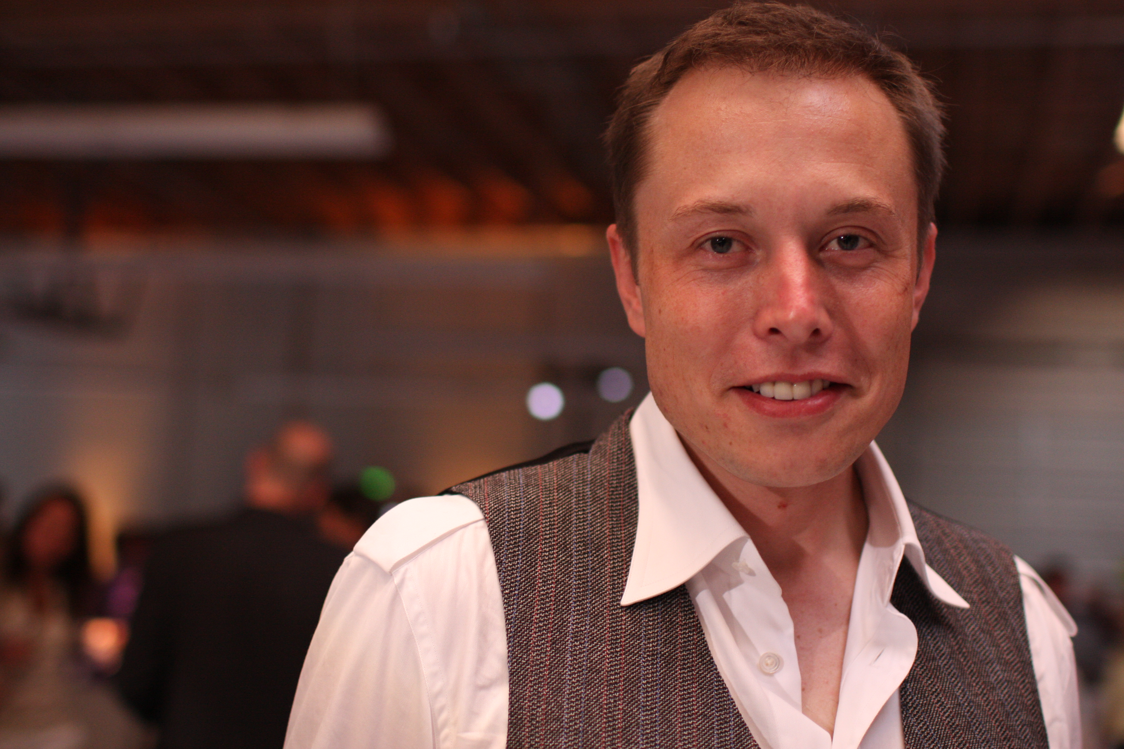 Tesla Grand Opening in Menlo Park - Tesla Chairman, Elon Musk. (CC) Brian Solis, and Feel free to use this picture. Please credit as shown.